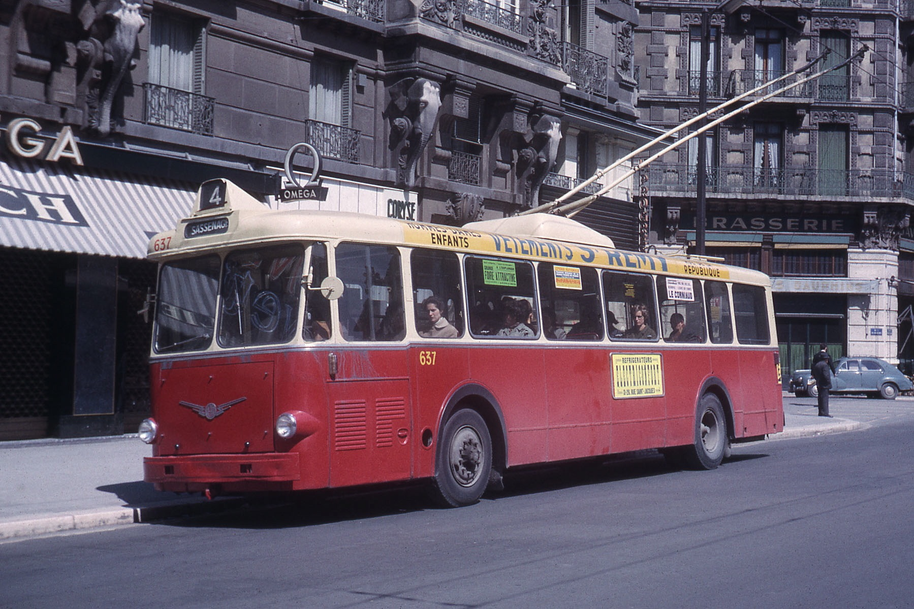 Grenoble trolleybus 637, a 1957 Vétra VBF, westbound at the Rue Felix Poulat stop in 1965. No. 637 originally served the Paris trolleybus system (where it was No. 8126) and was one of 38 VBF trolleybuses Grenoble acquired from Paris between about 1962 and 1966. This vehicle has been preserved by the Association du musée des transports urbains, interurbains et ruraux (AMTUIR).